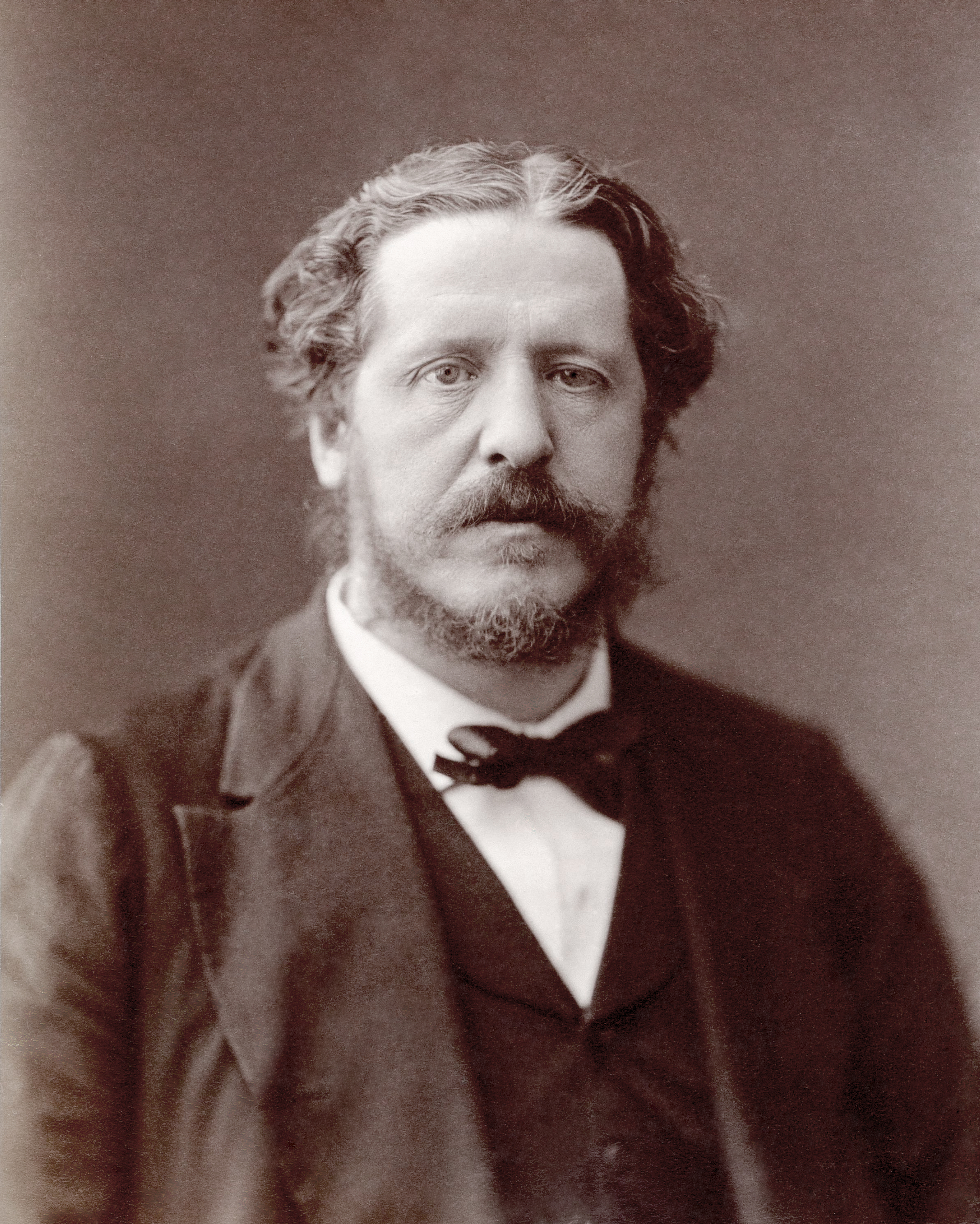 Jules Barbier (1825 - 1901), French playwright and librettist.